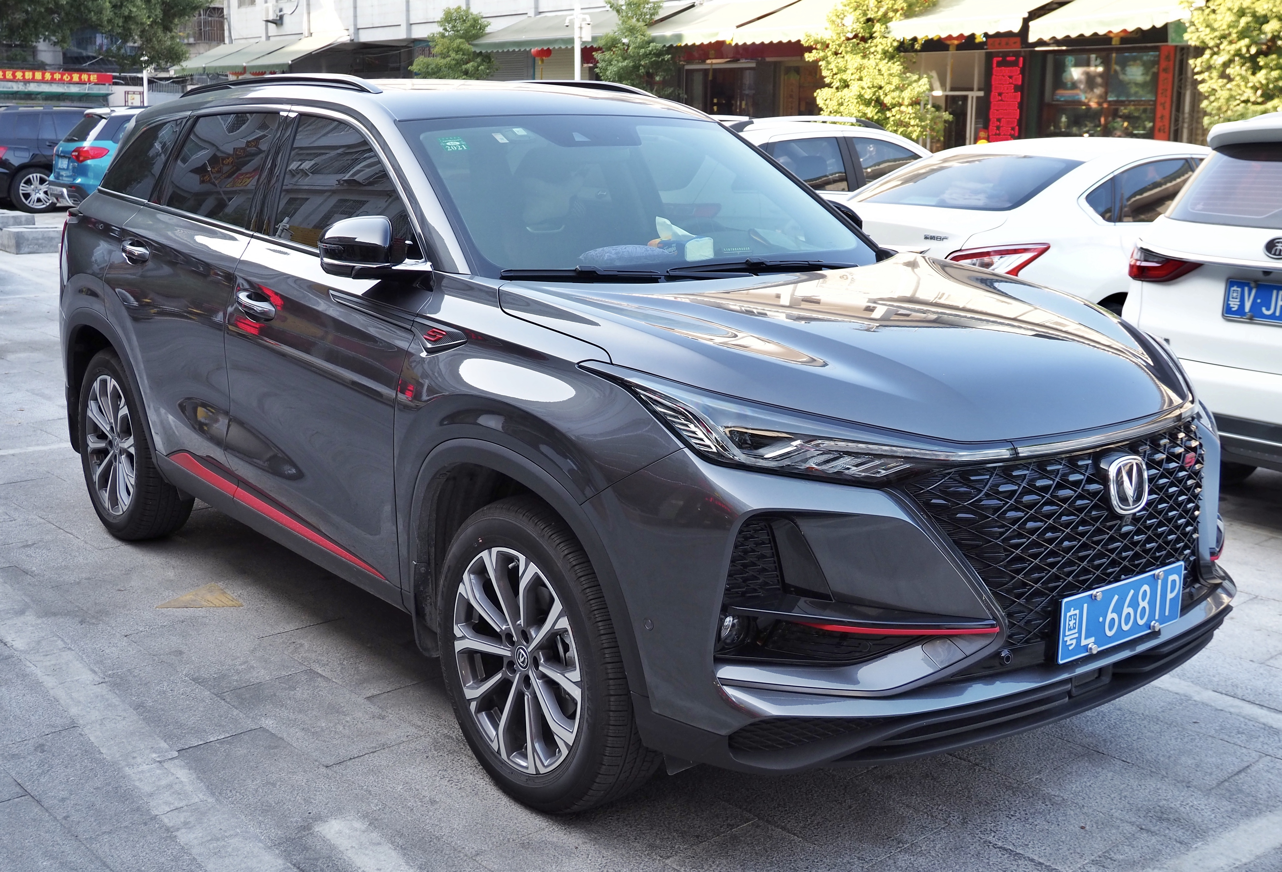 A 2019 Chang'an CS75 Plus photographed in Chaozhou, Guangdong Province, China. 中文（中国大陆）: 一辆2019年的长安CS75 Plus，拍摄于中国广东省潮州市。